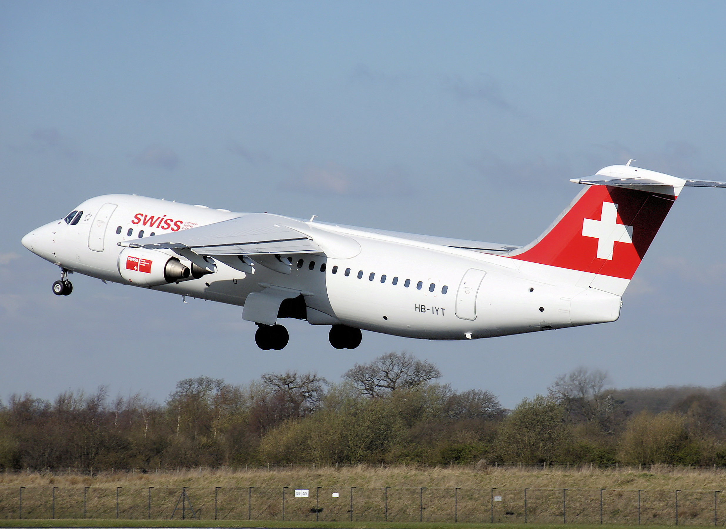 Swiss BAe 146-100 (HB-IYT), now called Avro RJ100, takes off from Manchester Airport, England.